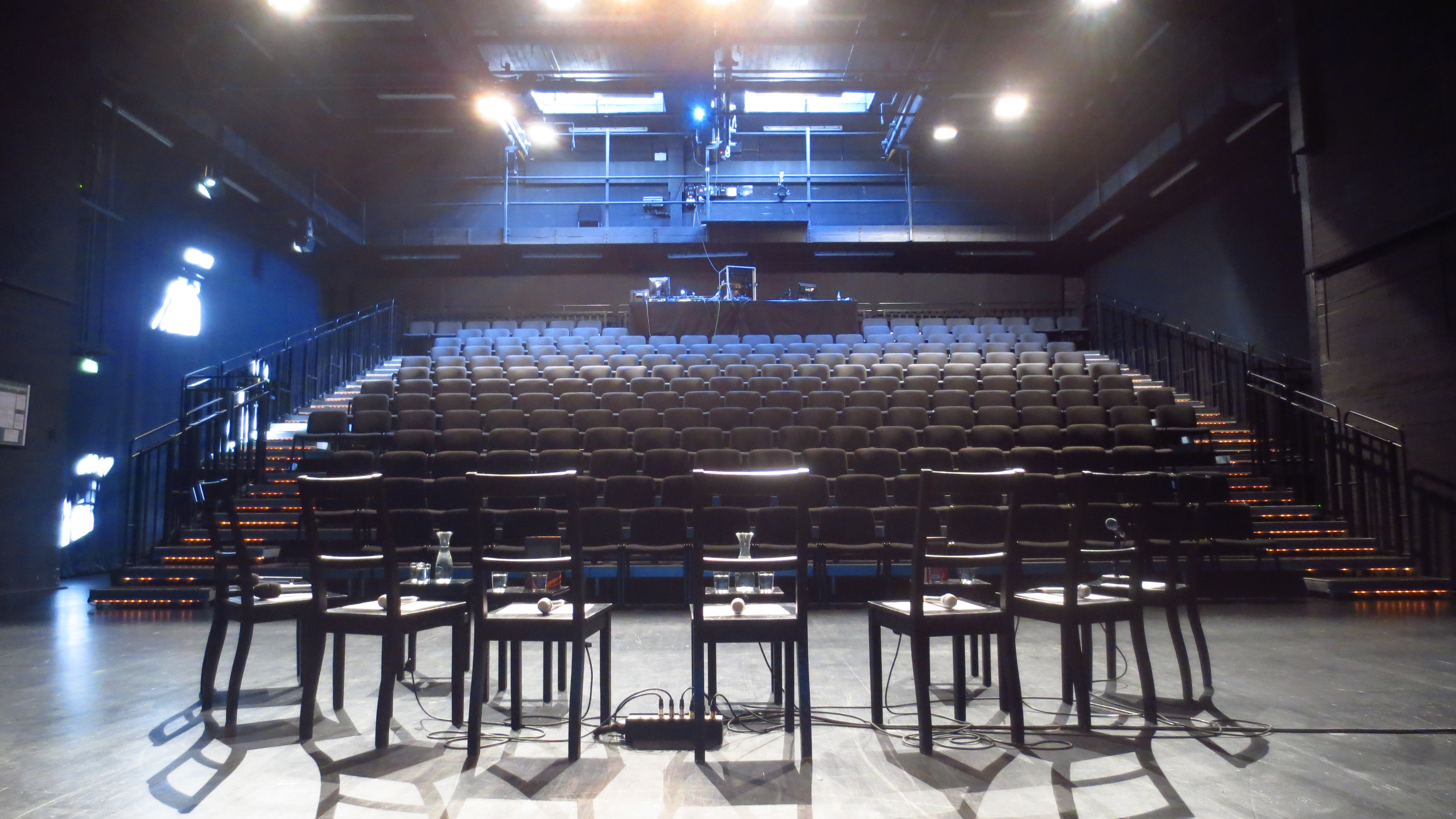 Side stage at Haus der Berliner Festspiele on September 18, 2014